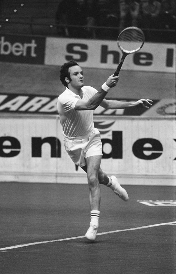 Dutch tennis player Tom Okker at the 1972 Rotterdam Indoors against Haroon Rahim.